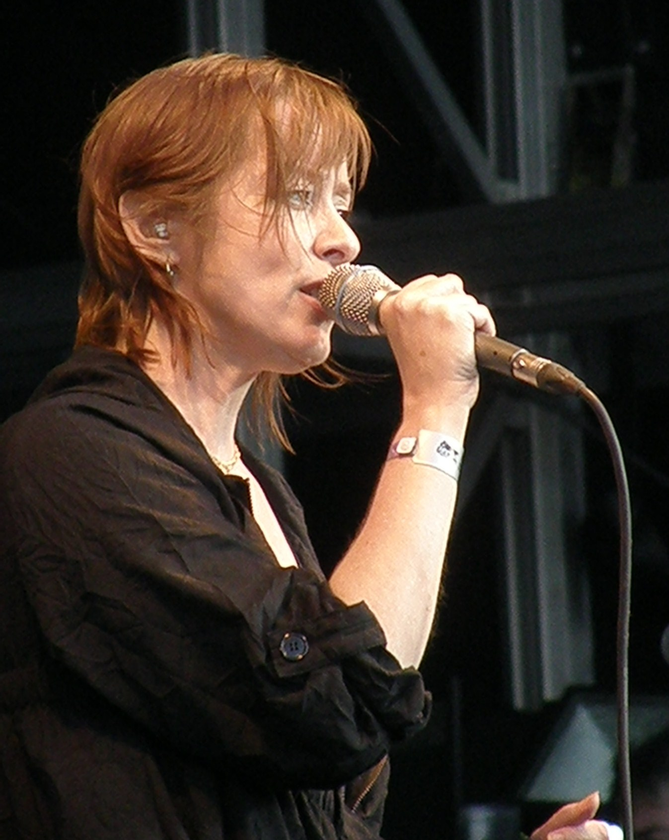 Suzanne Vega at Camp Bestival